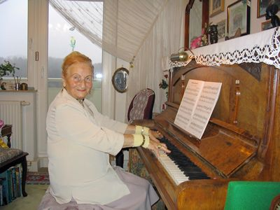 Ludmilla HypiusDepicted person: Q78894150